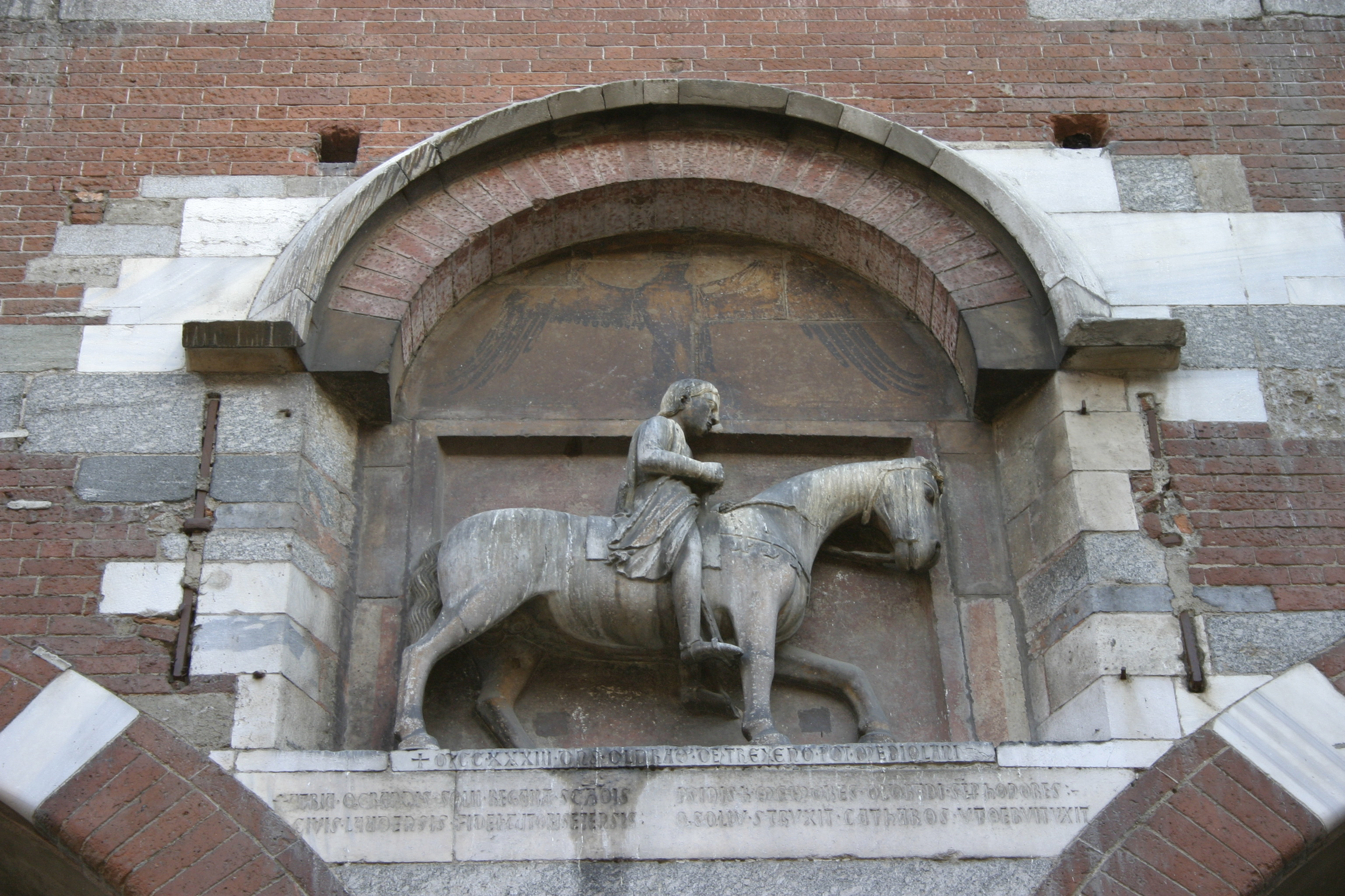 Milan, romanesque relief of Oldrado da Tresseno on the "Broletto nuovo", i.e. the ancient tribunal, whose construction Oldrado completed in 1233. Picture by Giovanni Dall'Orto, January 3 2007.